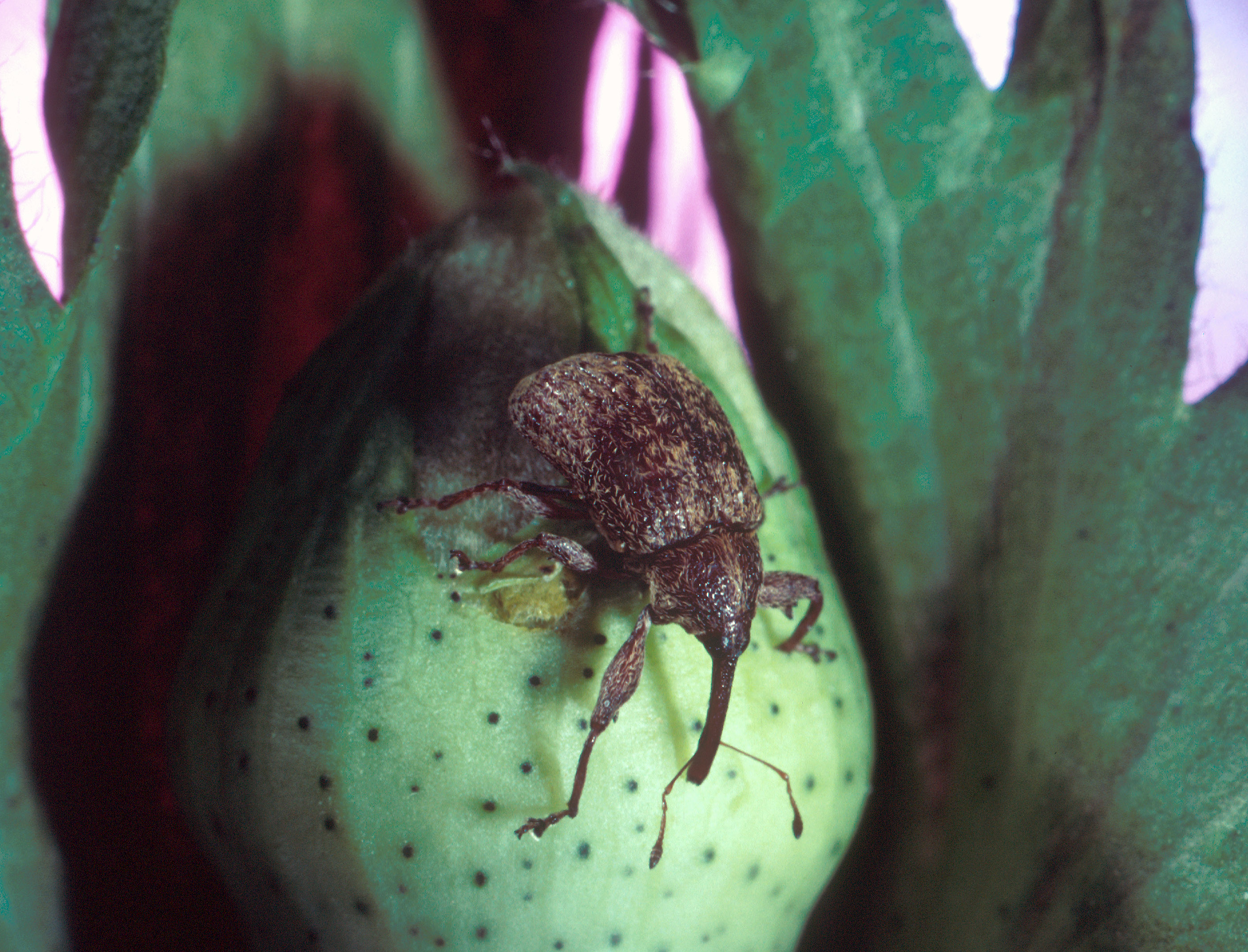 A boll weevil (Anthonomus grandis), also known as a cotton boll weevil.